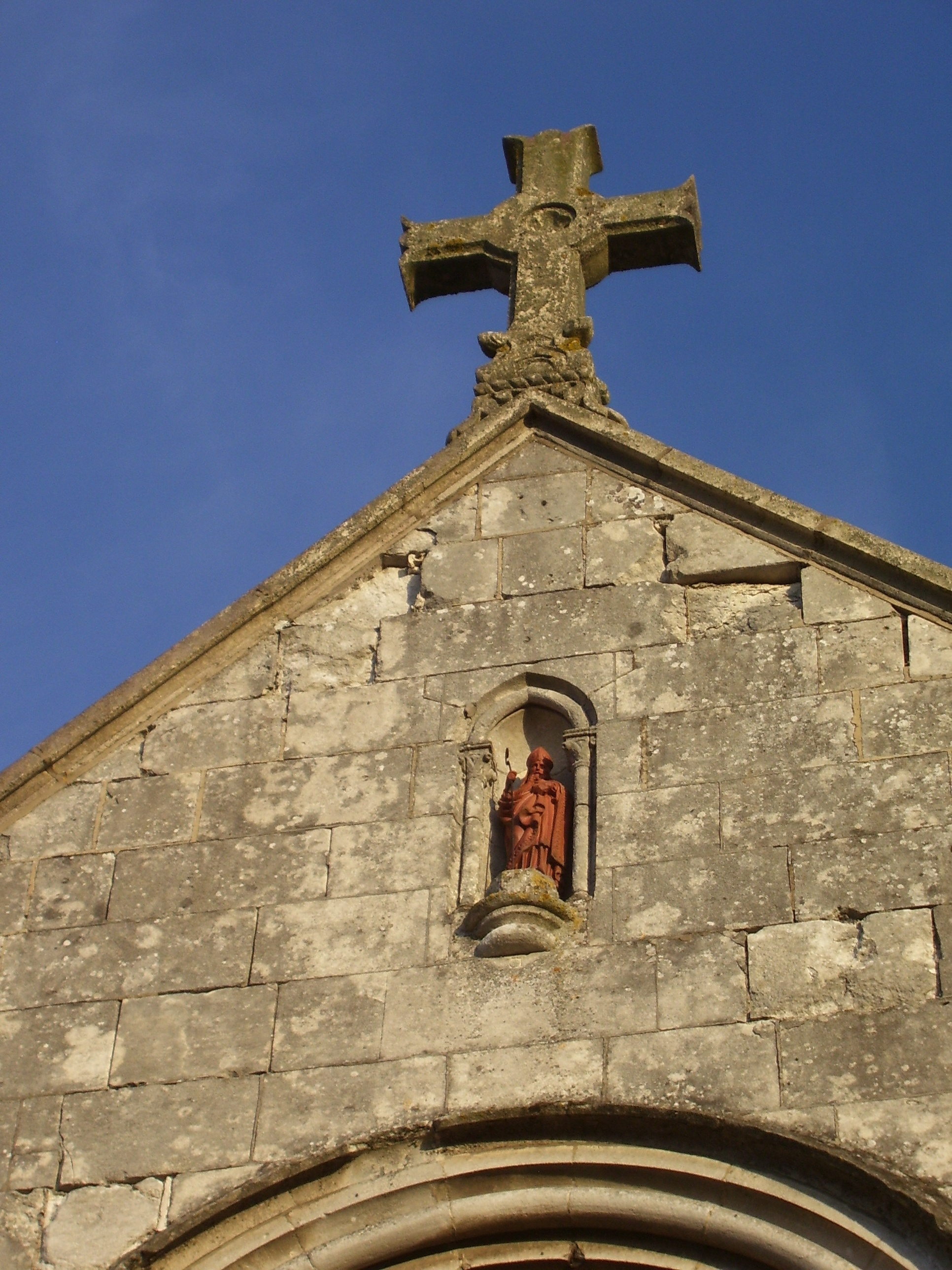 Statue in the western façade of the church Saint-Martin in Lieurey in France.